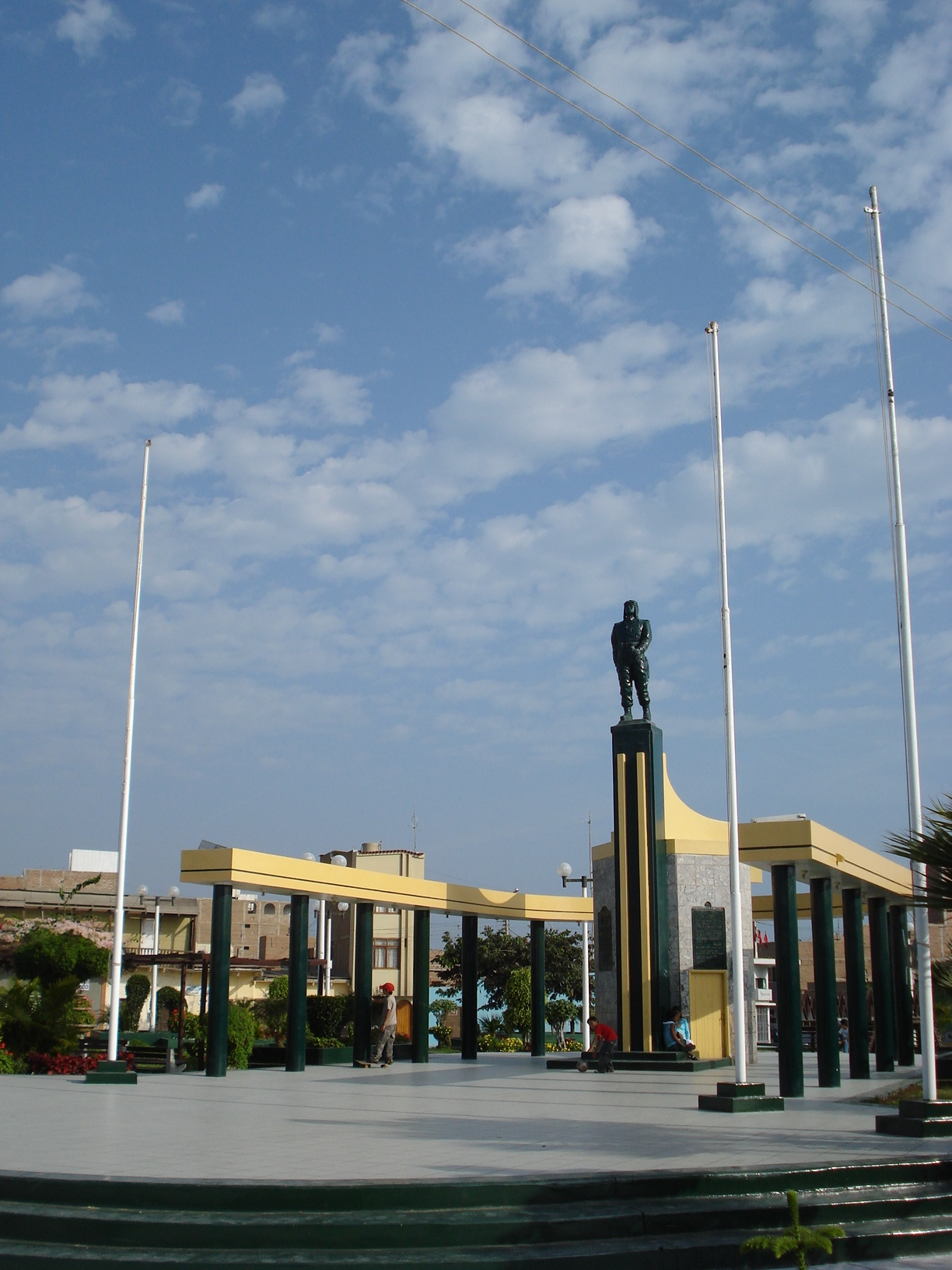 Main Square monument in memory of the famous aviator from Pimentel, Jose Quiñones Gonzales, declared National Hero. Pimentel, Chiclayo, Peru.